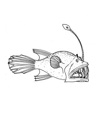 Drawing of the leftvent anglerfish, Acentrophryne longidens